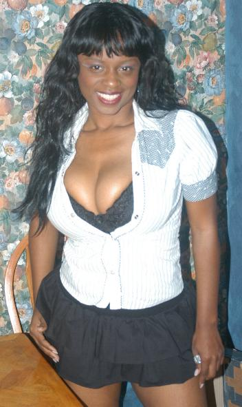 Lola Lane, pornographic actress. Taken on set in February 2006.